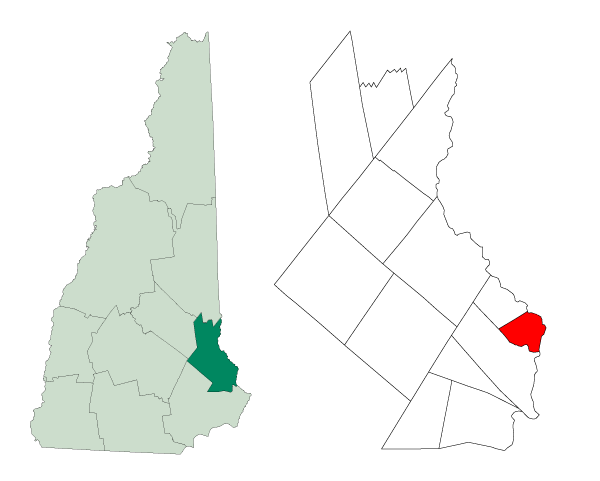 Created from Boundary/Border Outline Files of the Libre Map Project which held a BY-SA creative commons license. Data origionally from 2000 US Census boundary data.